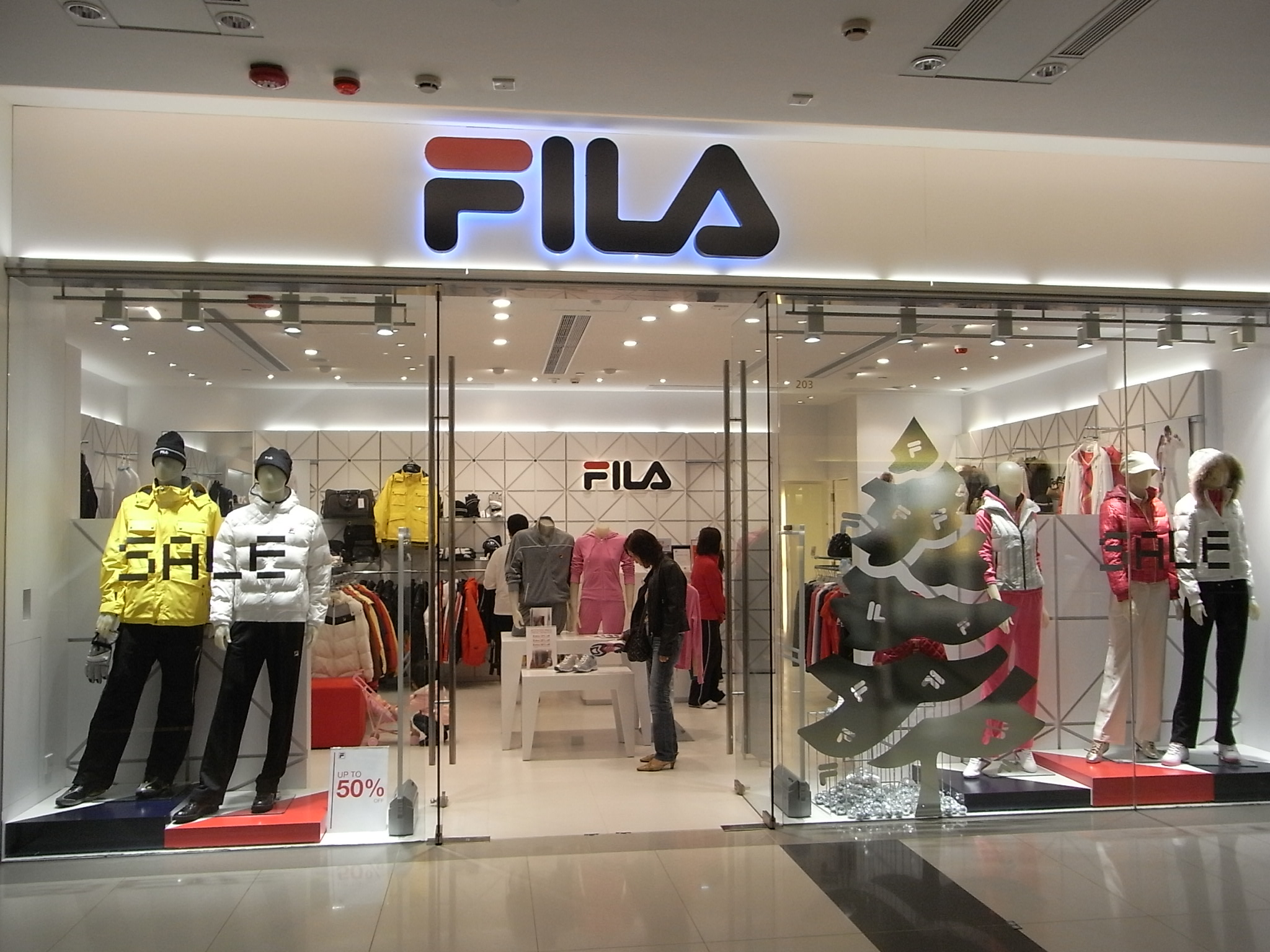 尖沙咀K11購物藝術館商場 K11 (skyscraper)